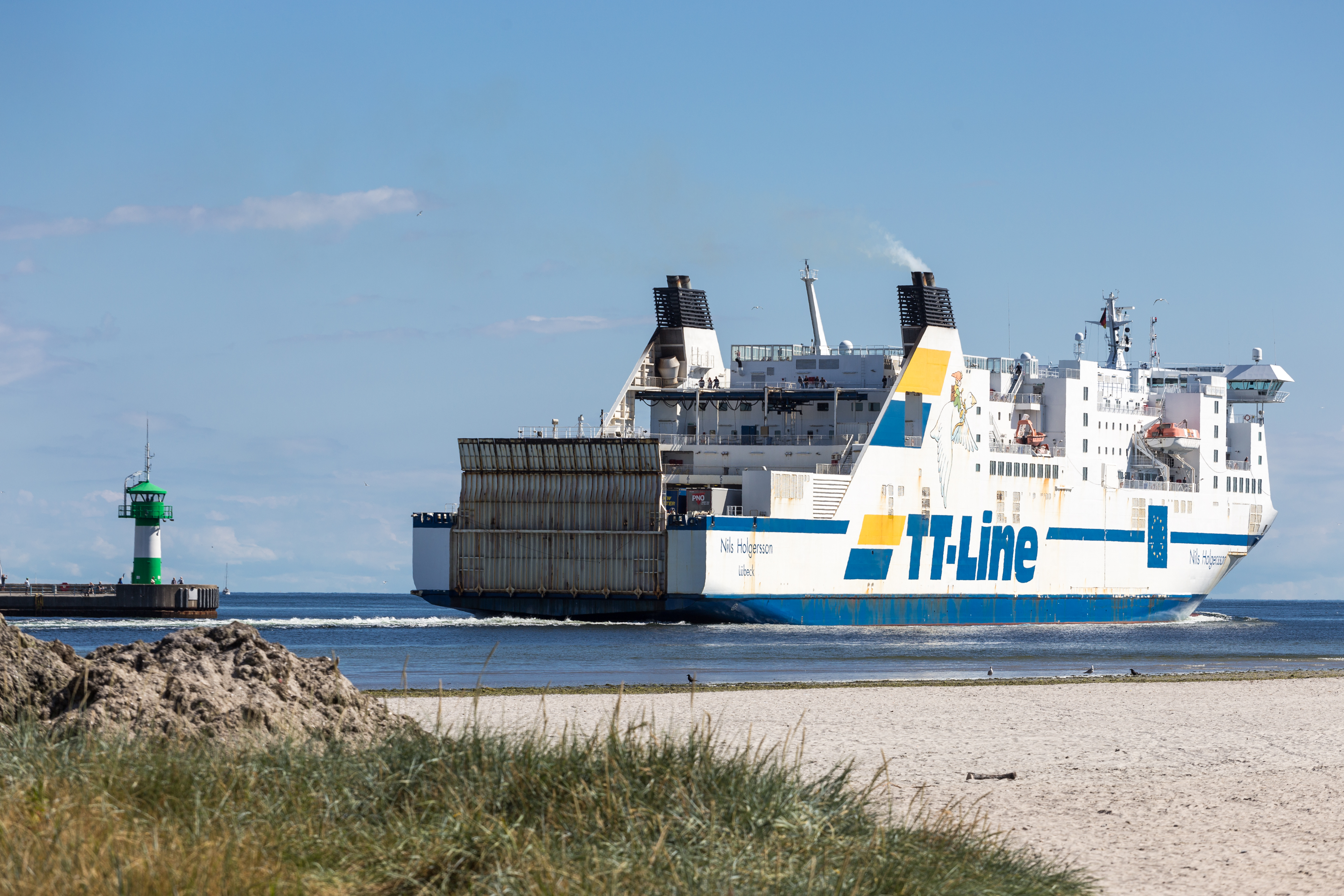 RoRo-Ferry "Nils Holgersson" of TT-Line departing Travemünde (Germany) to Trelleborg (Sweden)